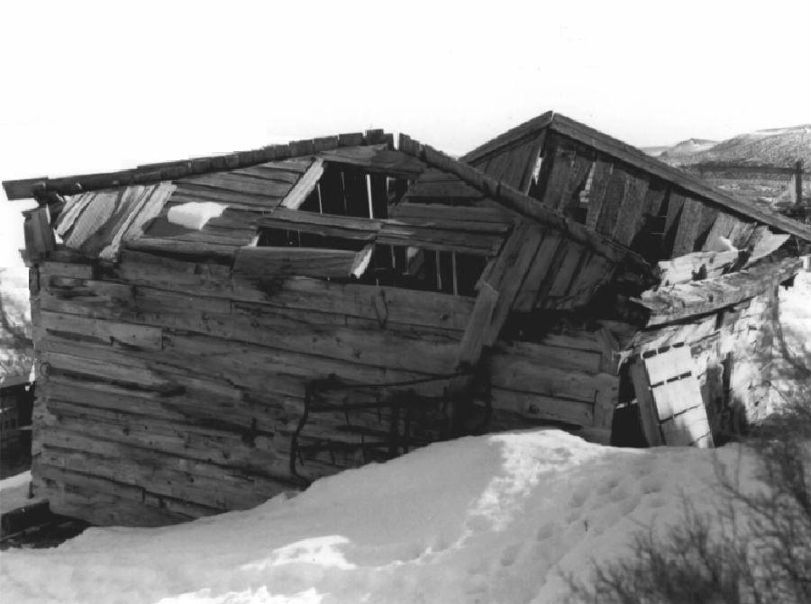 Historic blacksmith shop on Double O Ranch in Harney County, Oregon; listed on the National Register of Historic Places in 1982; now part of the Malheur National Wildlife Refuge